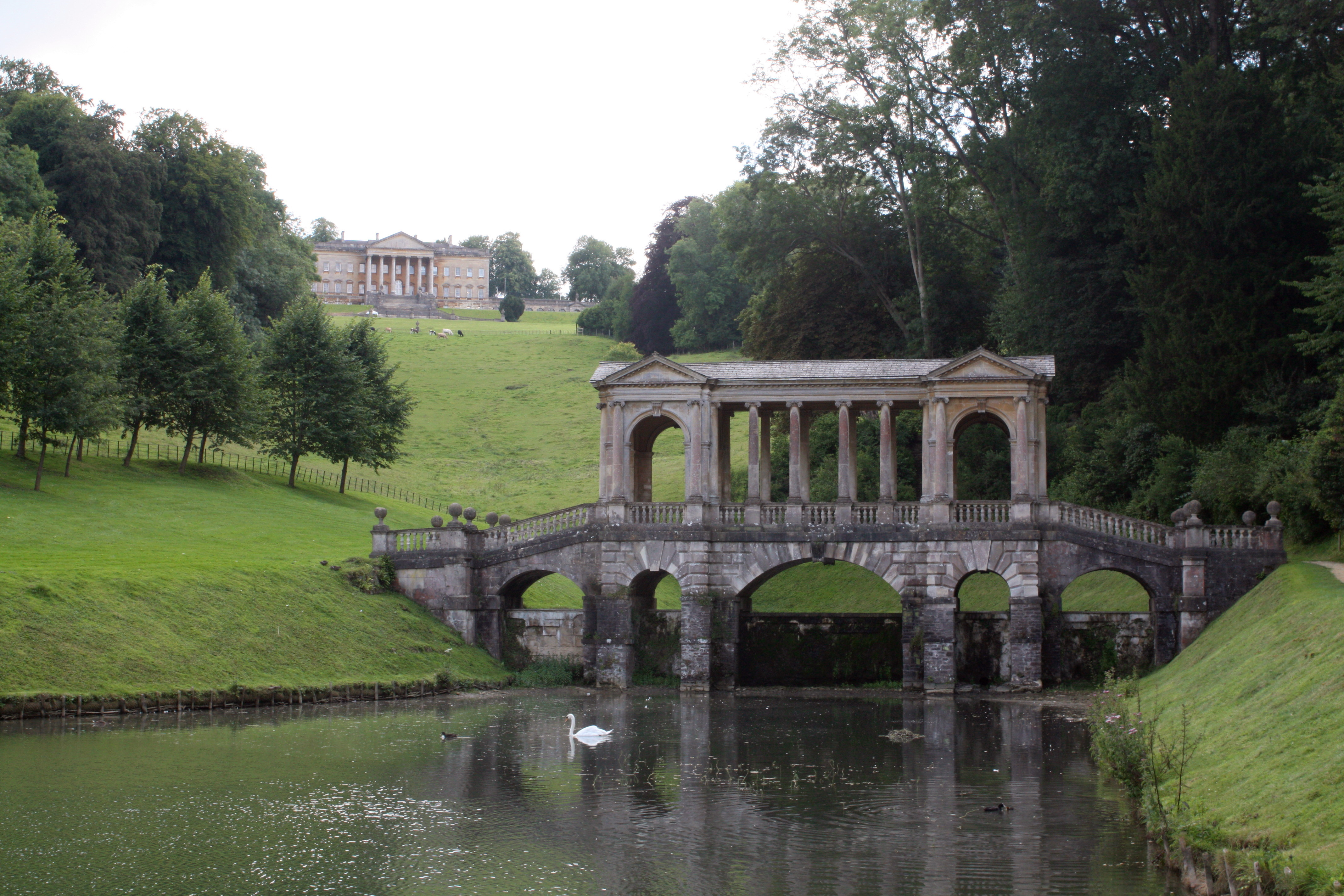 Palladian Bridge and House